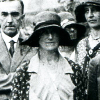 Truro 1930 Arthurian Society - International Arthurian Congress, Truro, August 1930 Professor C. B. Lewis attended the Congress, and made the list of participants inc. Dominica Legge. Second from left, R. S. Loomis, fourth from left Katharine Jenner, fifth from left Henry Jenner